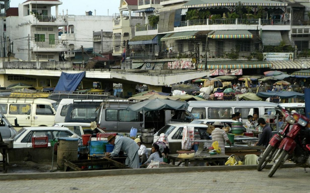 Chhbar Amboe Market, Phnom Penh, Cambodia